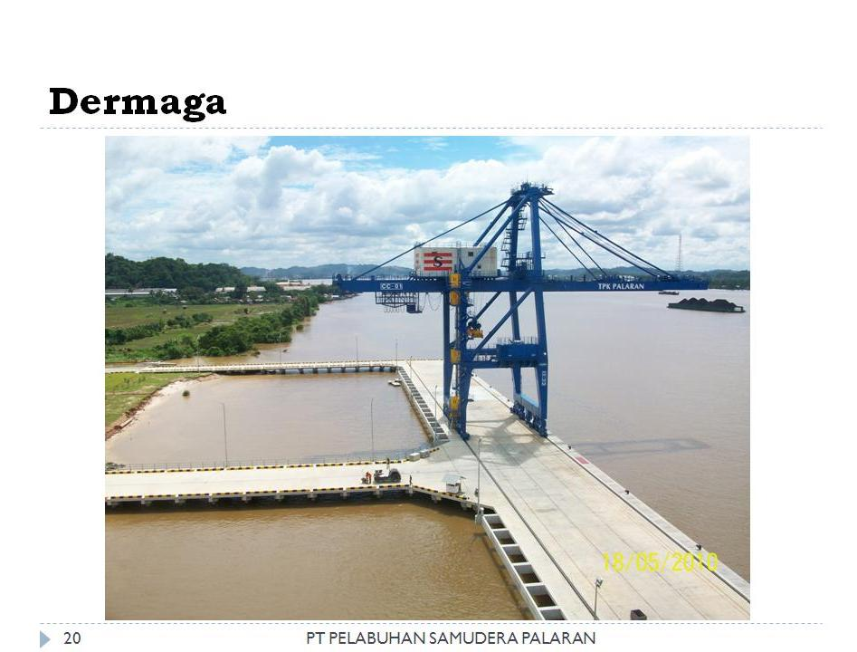 Dermaga Palaran di Sungai Mahakam, Samarinda, Kalimantan Timur